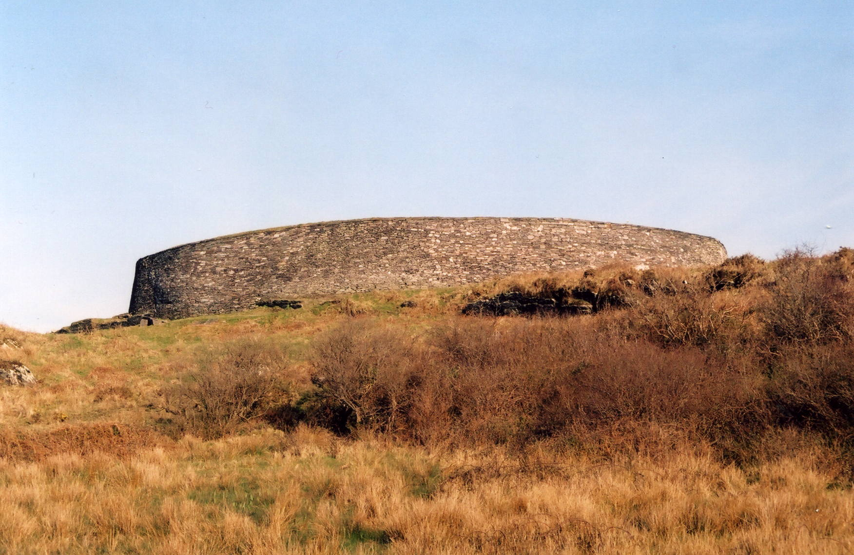 Ringfort de Cahergal à Cahirsiveen, Kerry